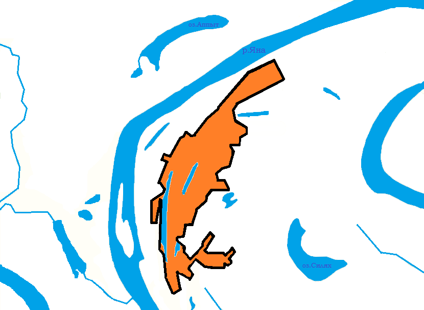 Map of Verkhoyansk (Russia)